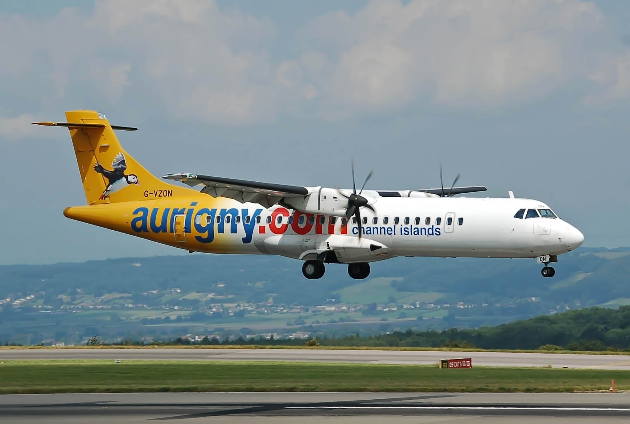 Aurigny Air Services ATR 72-212A (marketed as the ATR 72-500) landing at Bristol Airport, Bristol, England.